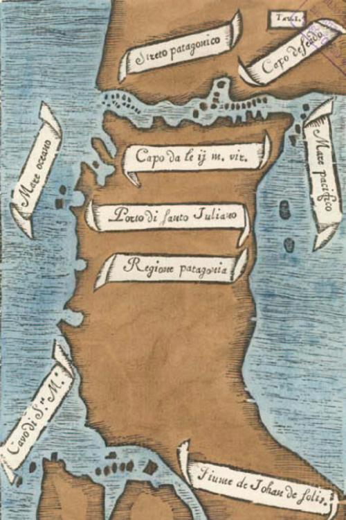 First map of Straits of Magellan of Antonio Pigafetta.